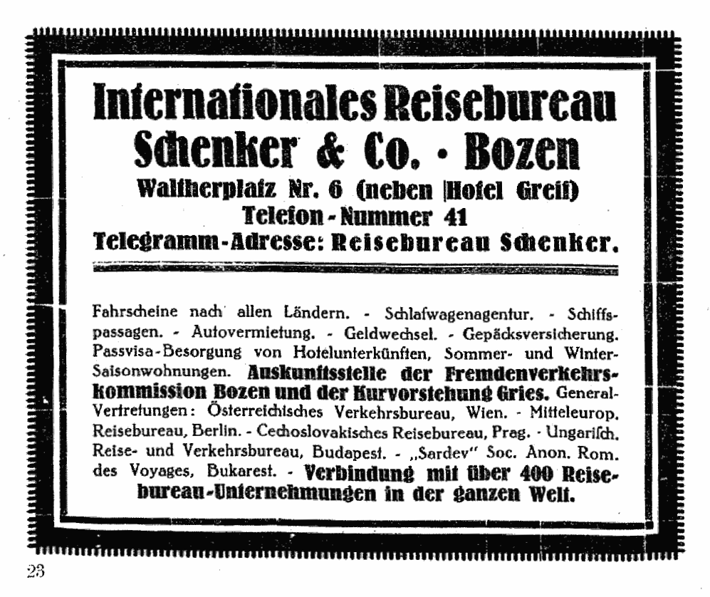 Advertising for Schenker & Co in Bozen-Bolzano 1925